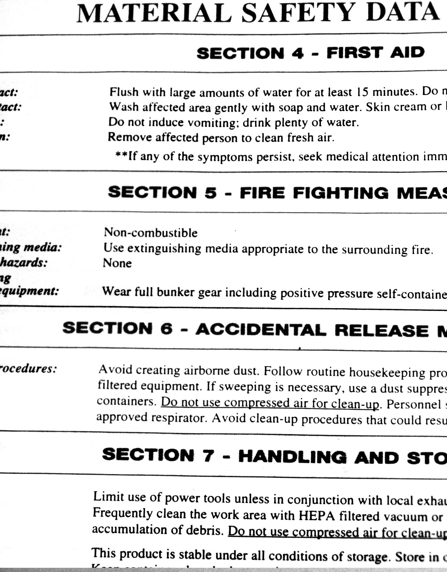 An example Material safety data sheet (MSDS), giving instructions for handling a hazardous substance.